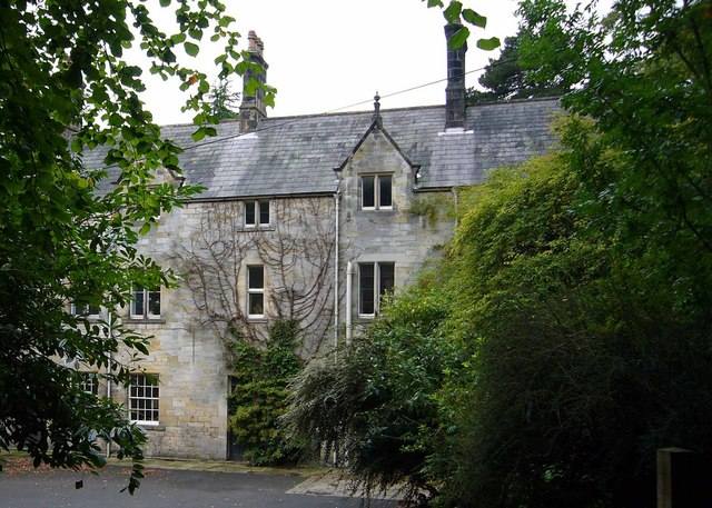 Sandhoe Hall Country House built in 1850 by John Dobson for Sir Rowland Errington.